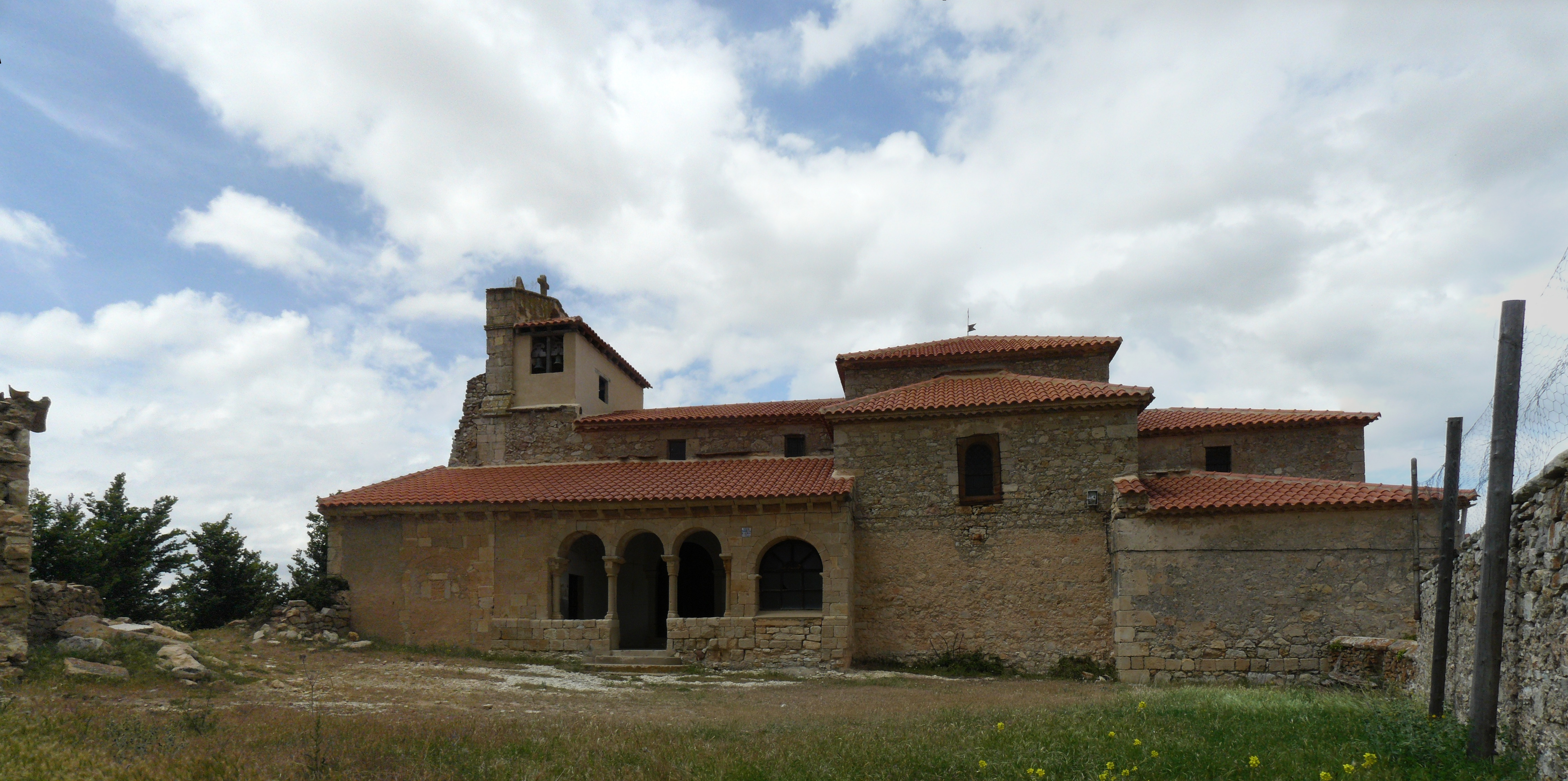 Church at Madruédanos, Soria (Spain)